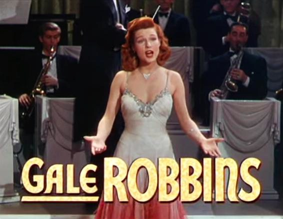 Gale Robbins in Three Little Words (1950) - trailer (cropped screenshot).